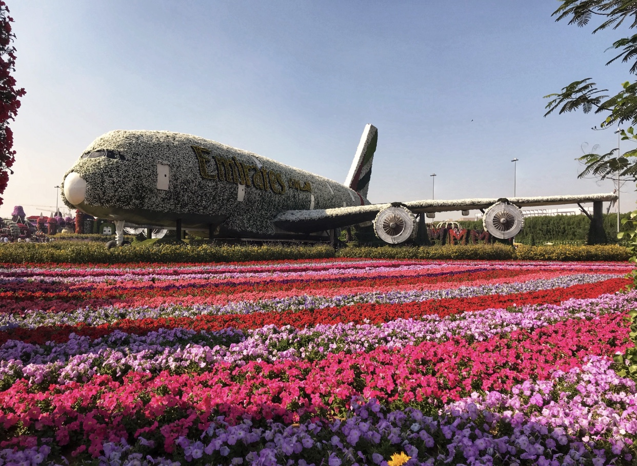 Miracle Garden, Dubai